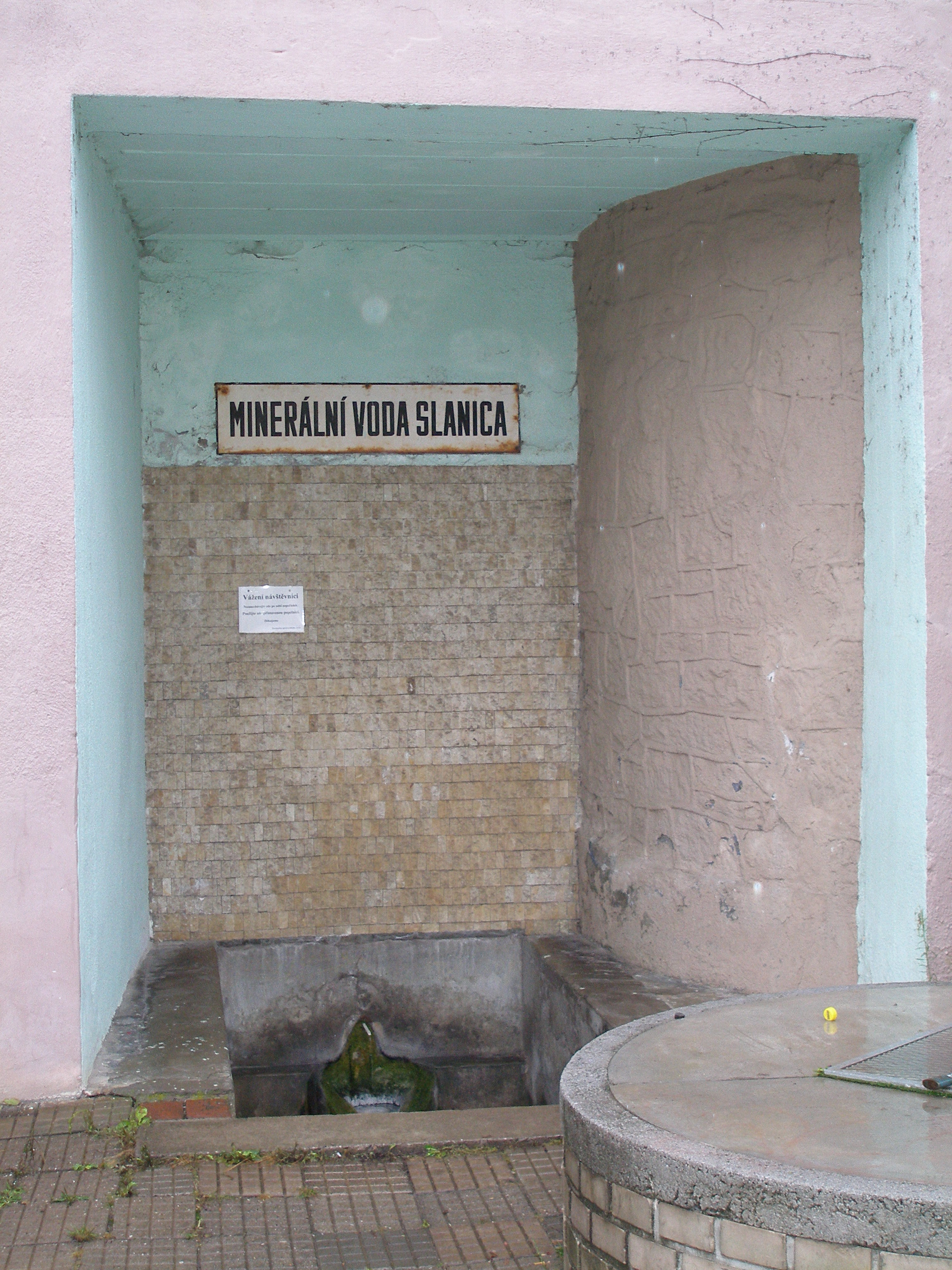 Napajedla, mineral water Slanica